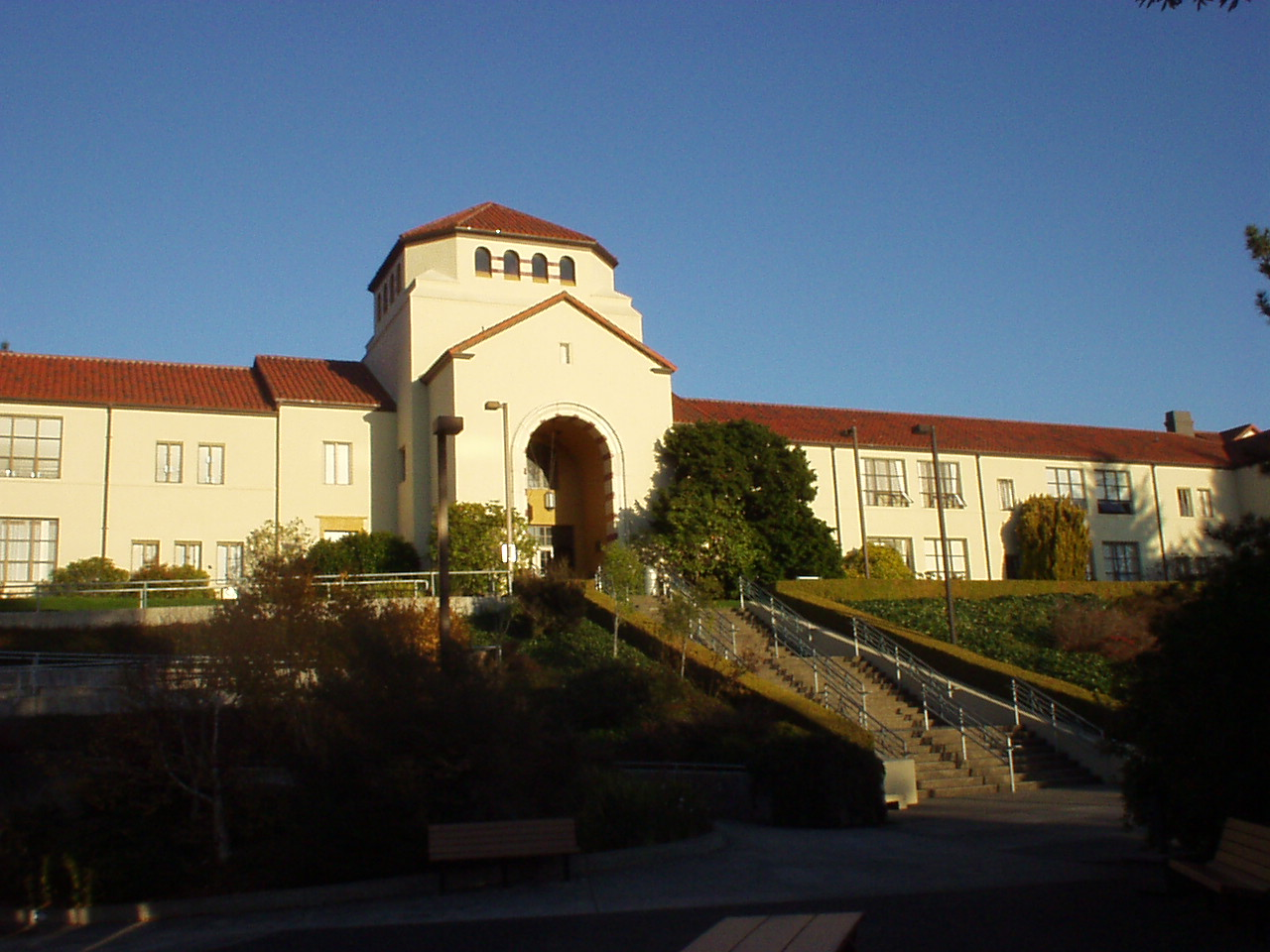 Founder's Hall on the campus of Humboldt State University, Arcata, Calif. Photo taken by John Baker in November 2003.